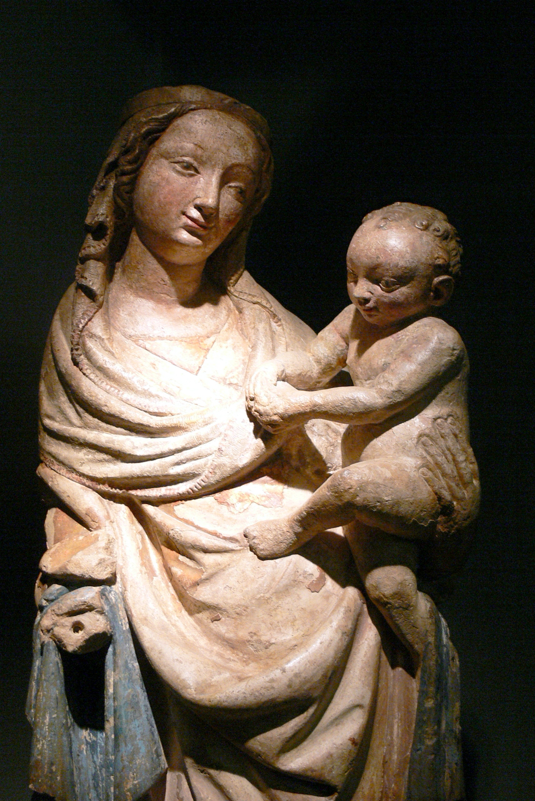 Museum of Mining and Gothic art in Leogang ( Salzburg state ). Gothic collections: Statue of Madonna and Child ( 1410 ) from Salzburg or Prague.